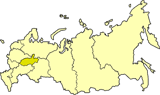 volga-vyatka economic region based on Image:Economic regions of Russia.png